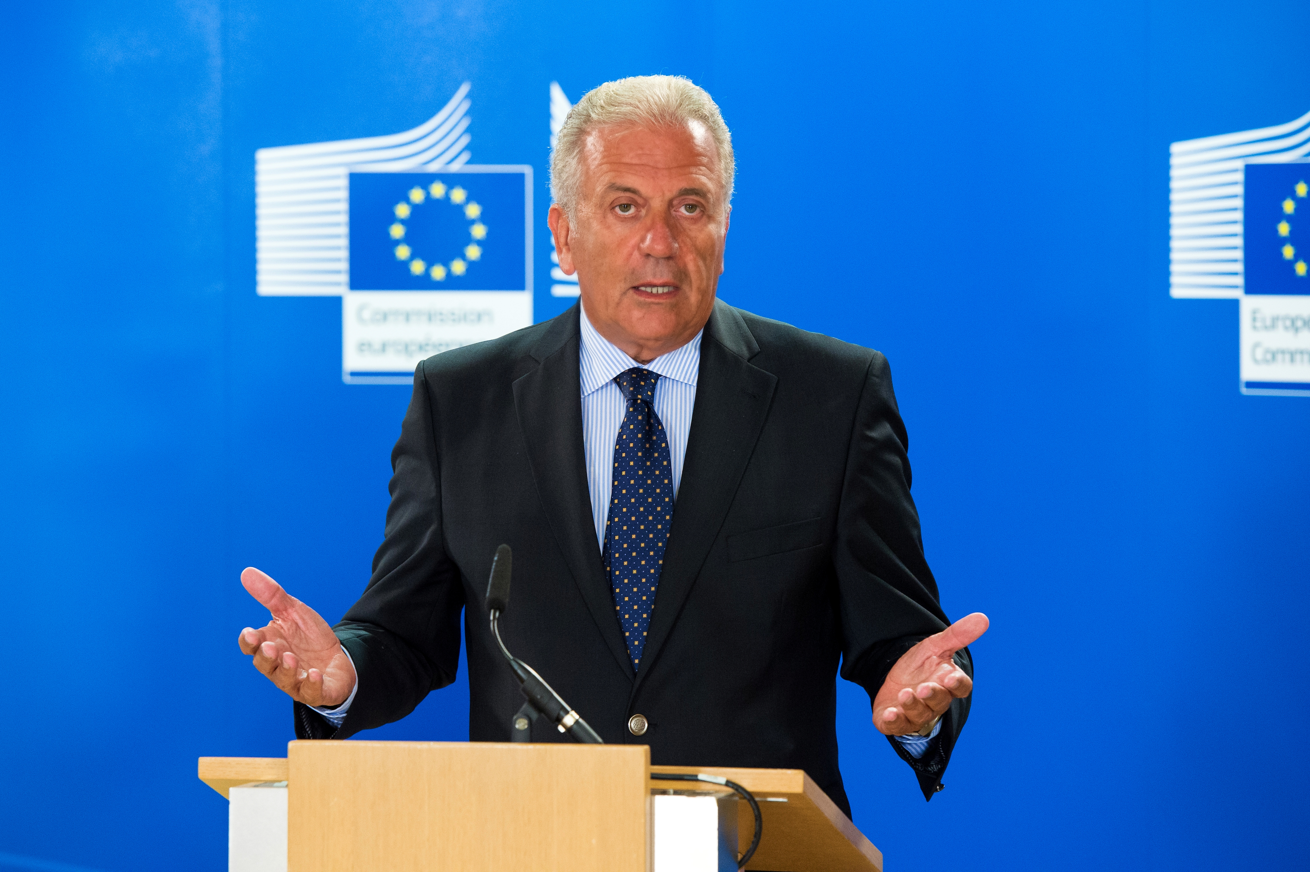 Press Conference by the European Commissioner for Migration, Home Affairs and Citizenship Mr Dimitris Avramopoulos, Brussels 14/8/2015 A European Response to Migration: Showing solidarity and sharing responsibility